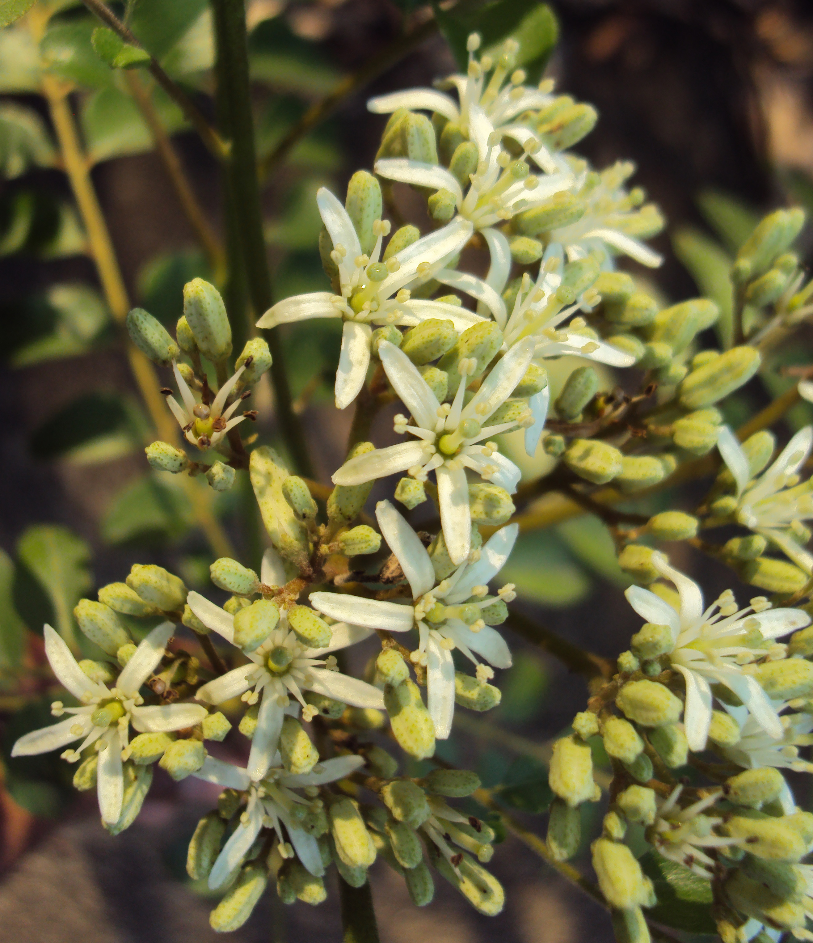 Murraya koenigii